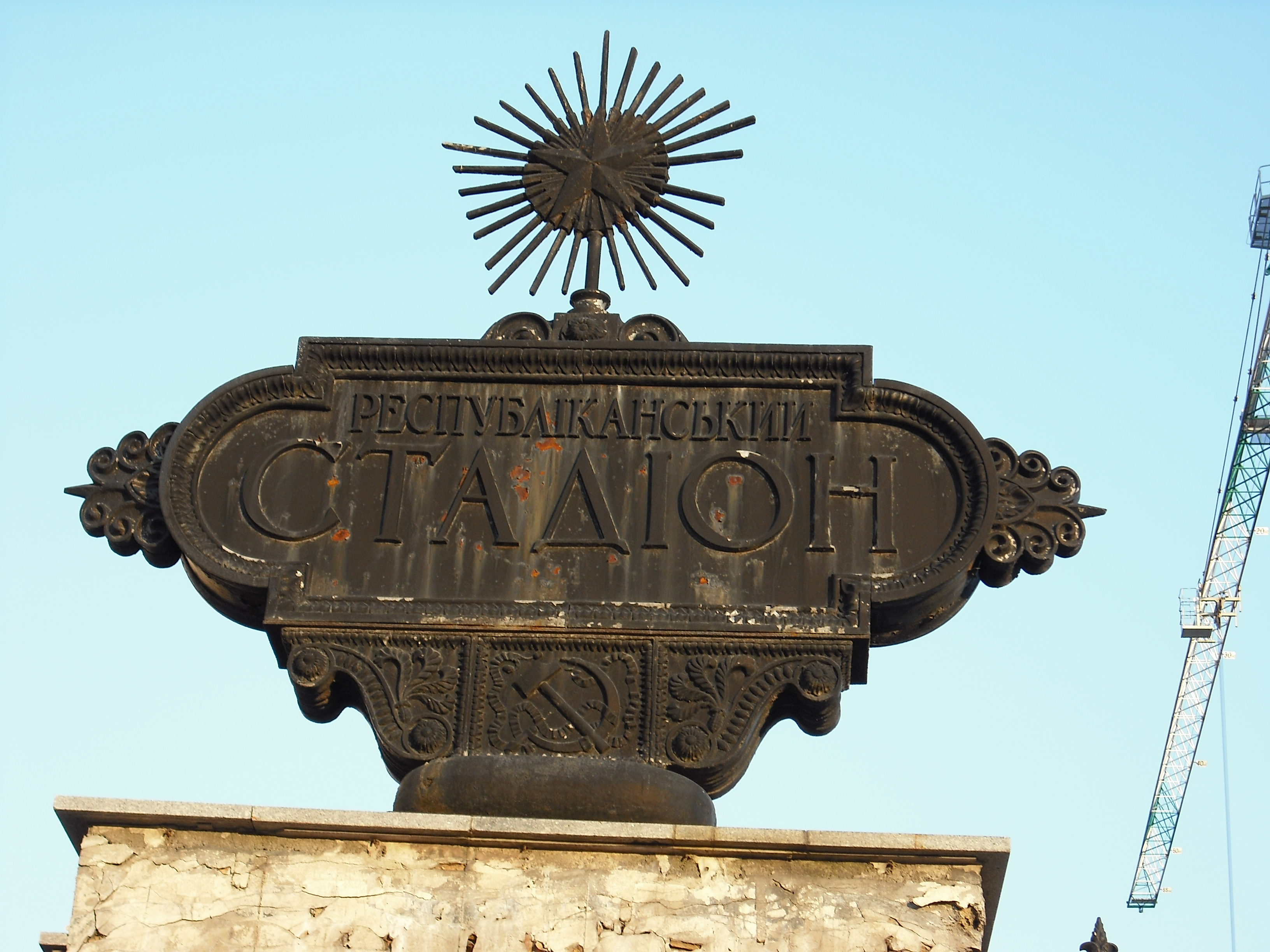 Kiev - Olympic Stadium